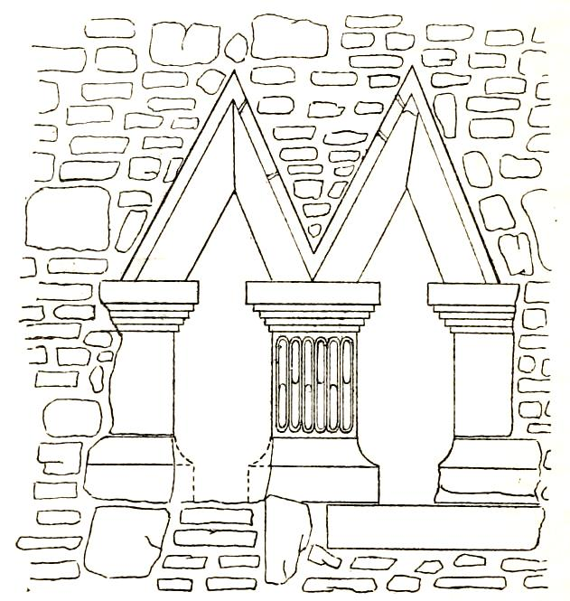 Drawing of the double opening from the west tower into the nave in the priory church of St Mary, Deerhurst, Gloucestershire